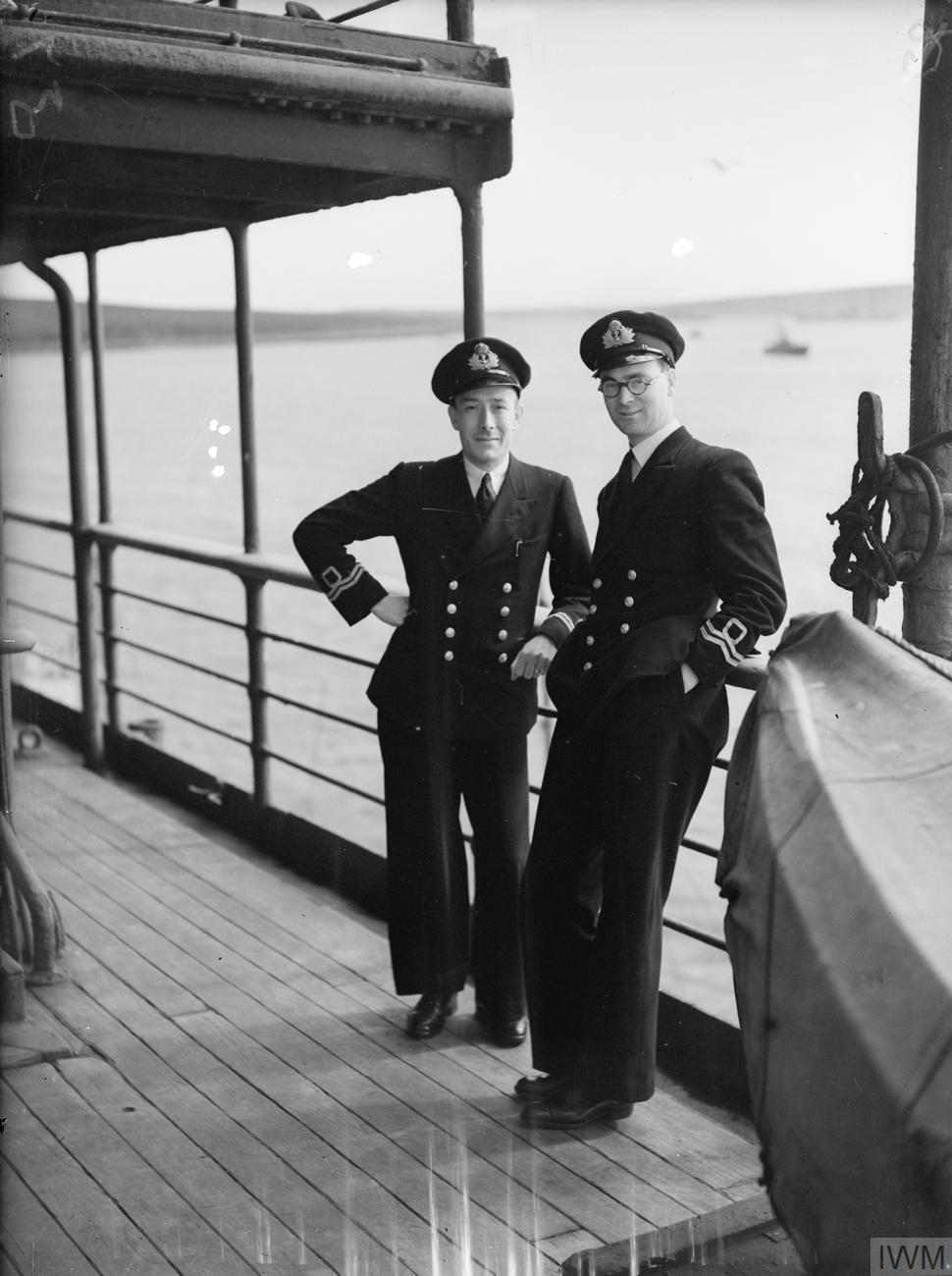 HMS Dunluce Castle, a Transit Ship. Lt H Smith RNVR (left) and Lt R G Coote RNVR, Official Naval Photographers.